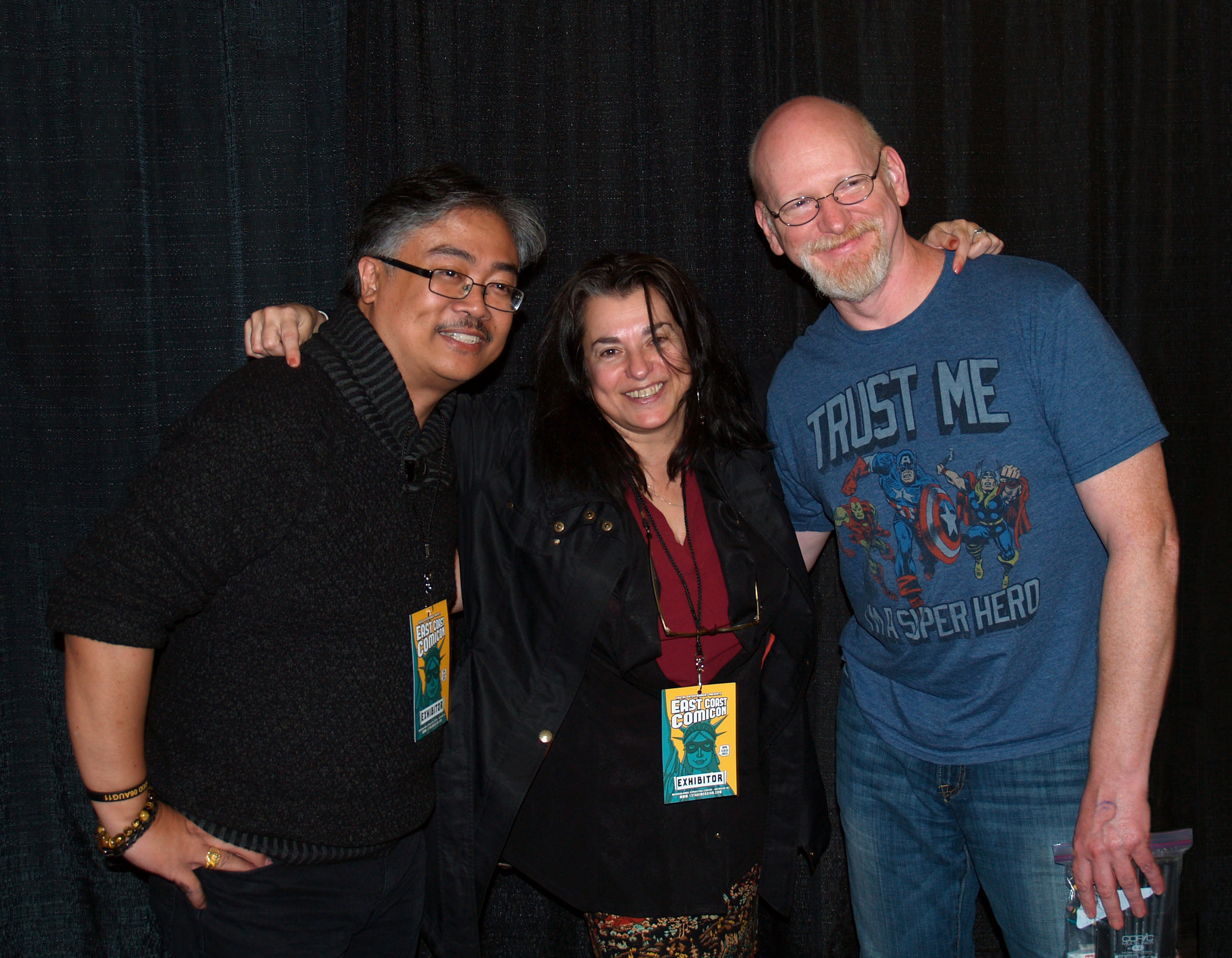 From left to right: comics creators Whilce Portacio, Ann Nocenti and Arthur Adams at the Meadowlands Exposition Center in Secaucus, New Jersey on April 11, 2015, Day 1 of the 2015 East Coast Comicon. The three creators were the inker, writer and penciller, respectively, on the 1985 comics miniseries Longshot, which introduced the character of that name, and this 30th anniversary reunion was the first time the three creators were seen in public since first creating that series in 1985. This photo was created by Luigi Novi. It is not in the public domain, and use of this file outside of the licensing terms is a copyright violation.